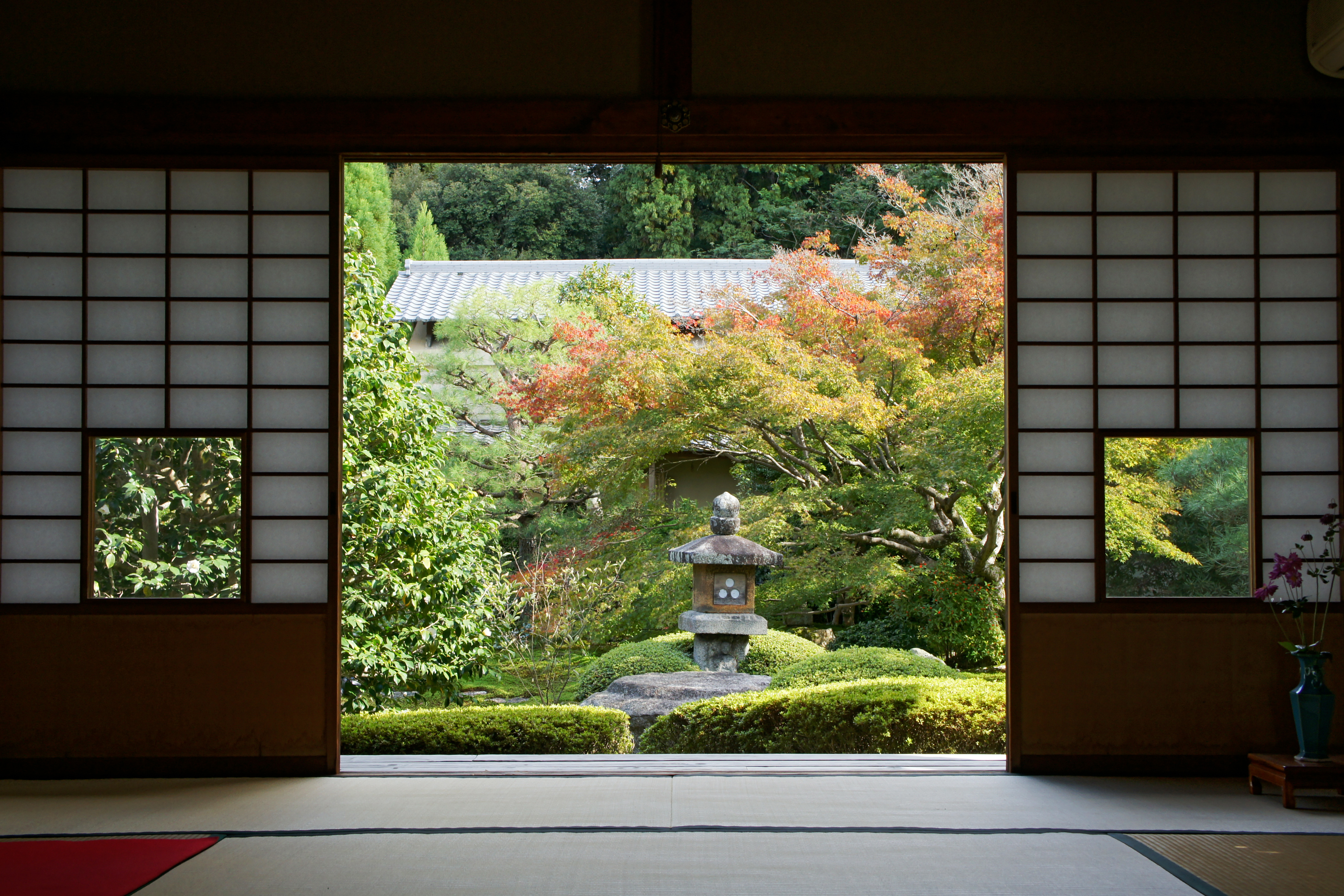 Unryu-in in Higashiyama-ku, Kyoto, Kyoto prefecture, Japan